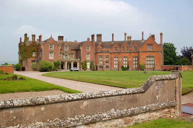 Loton Park country house Some sources date this from the 14th century, another suggests it was built in 1620. You can actually get married here, Apparently it was featured in the BBC documentary "A Country Estate".